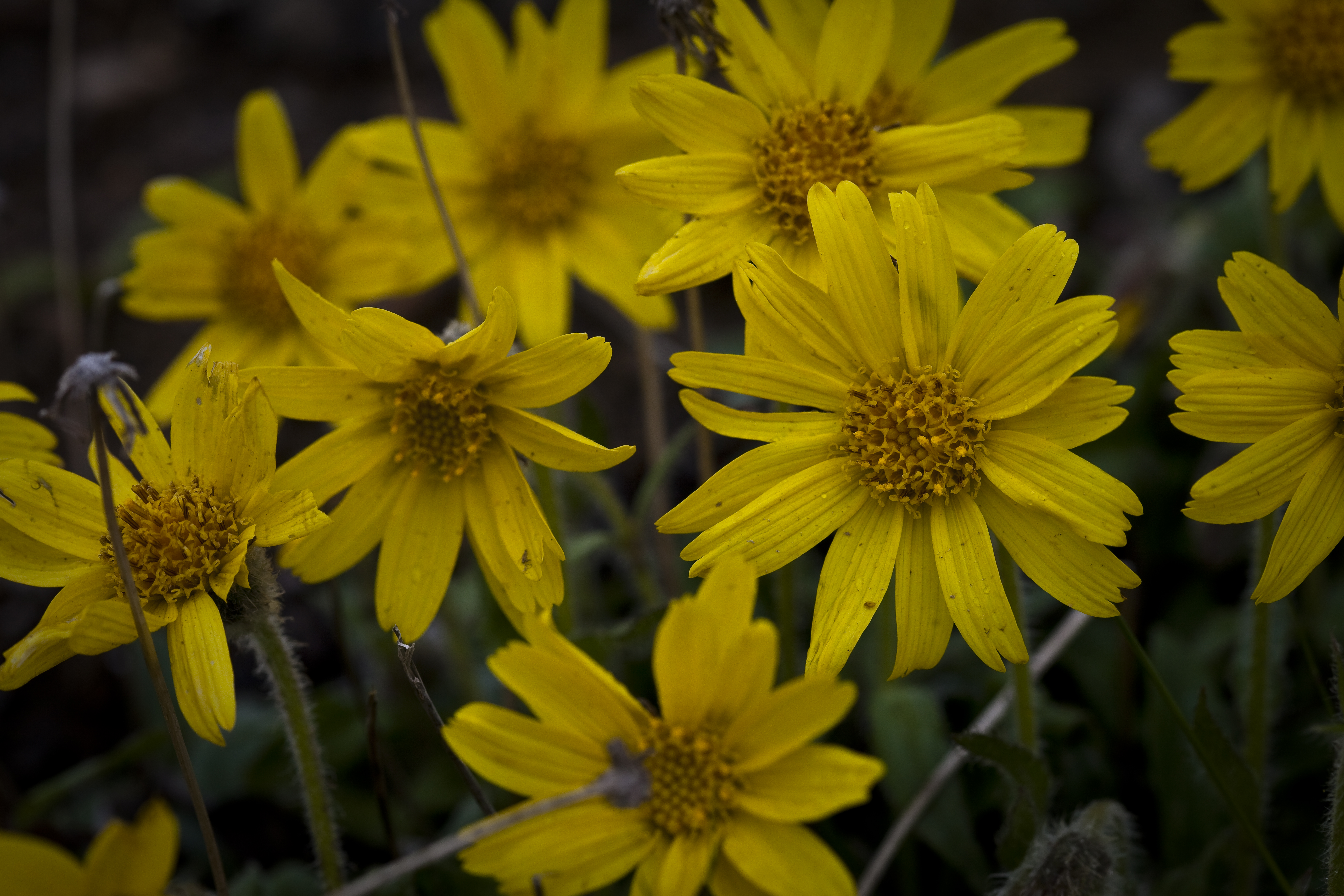 Arnica griscomii ssp. frigida, Denali National Park and Preserve, AK, USA